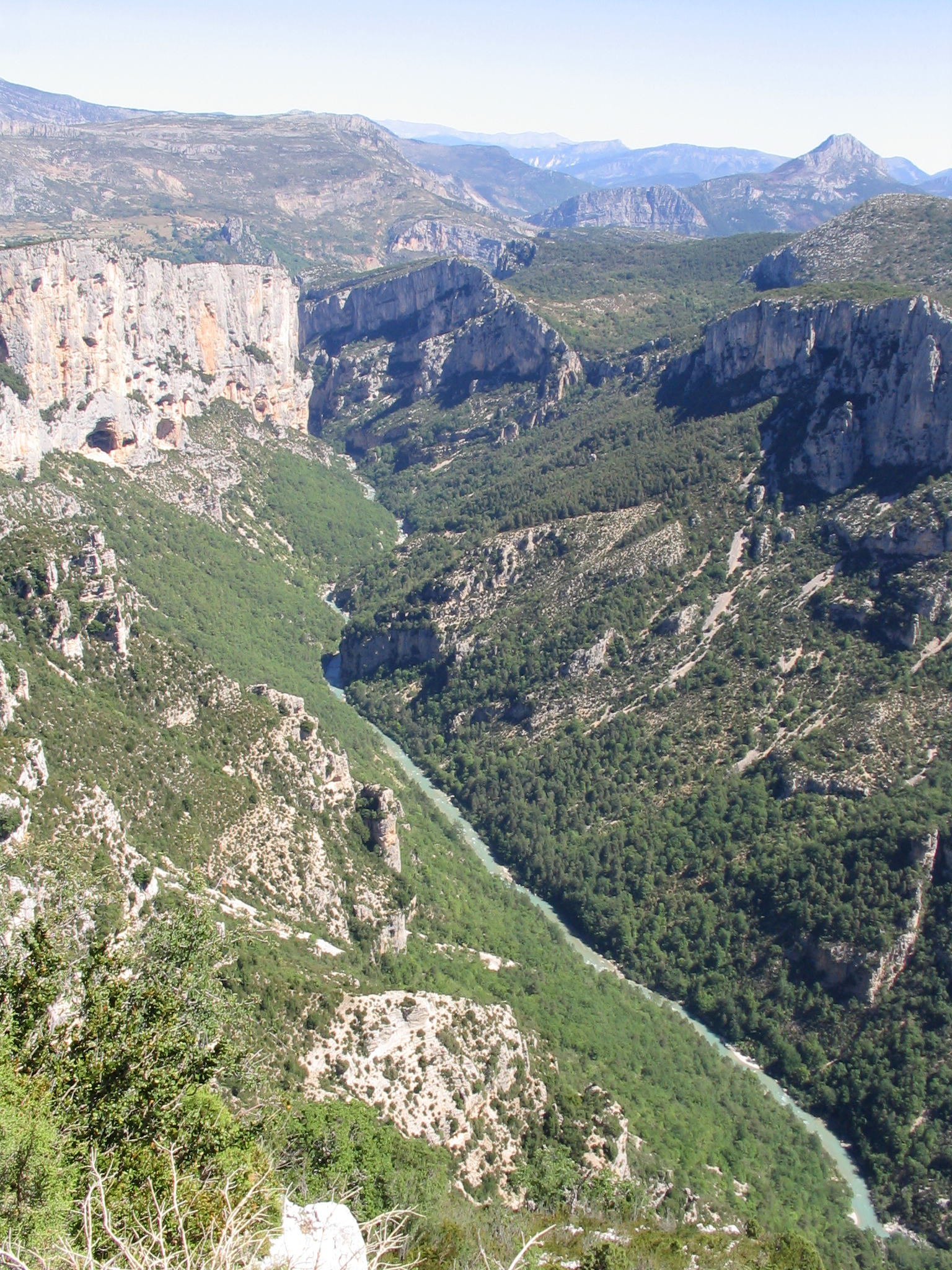 Grand Canyon du Verdon, view from north rim